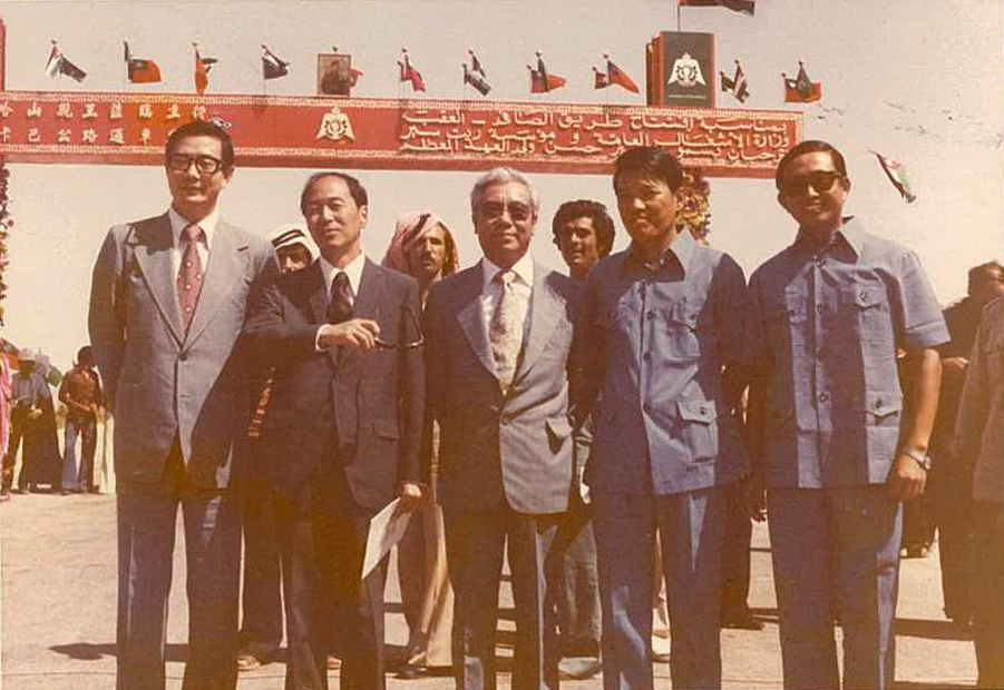 From left to right: SHEH HUNG-CHEN (VICE PRESIDENT RSEA), HSIANG SHIH-KUEI (LATER MINISTER TO THE VATICAN FROM REPUBLIC OF CHINA), YEN HSIAO-CHANG (PRESIDENT OF RSEA), LIN CHI-KO (MANAGER, JORDAN PROJECT OFFICE OF RSEA), LO CHIEN-NING (PROJECT ENGINEER, JORDAN PROJECT OFFICE OF RSEA)